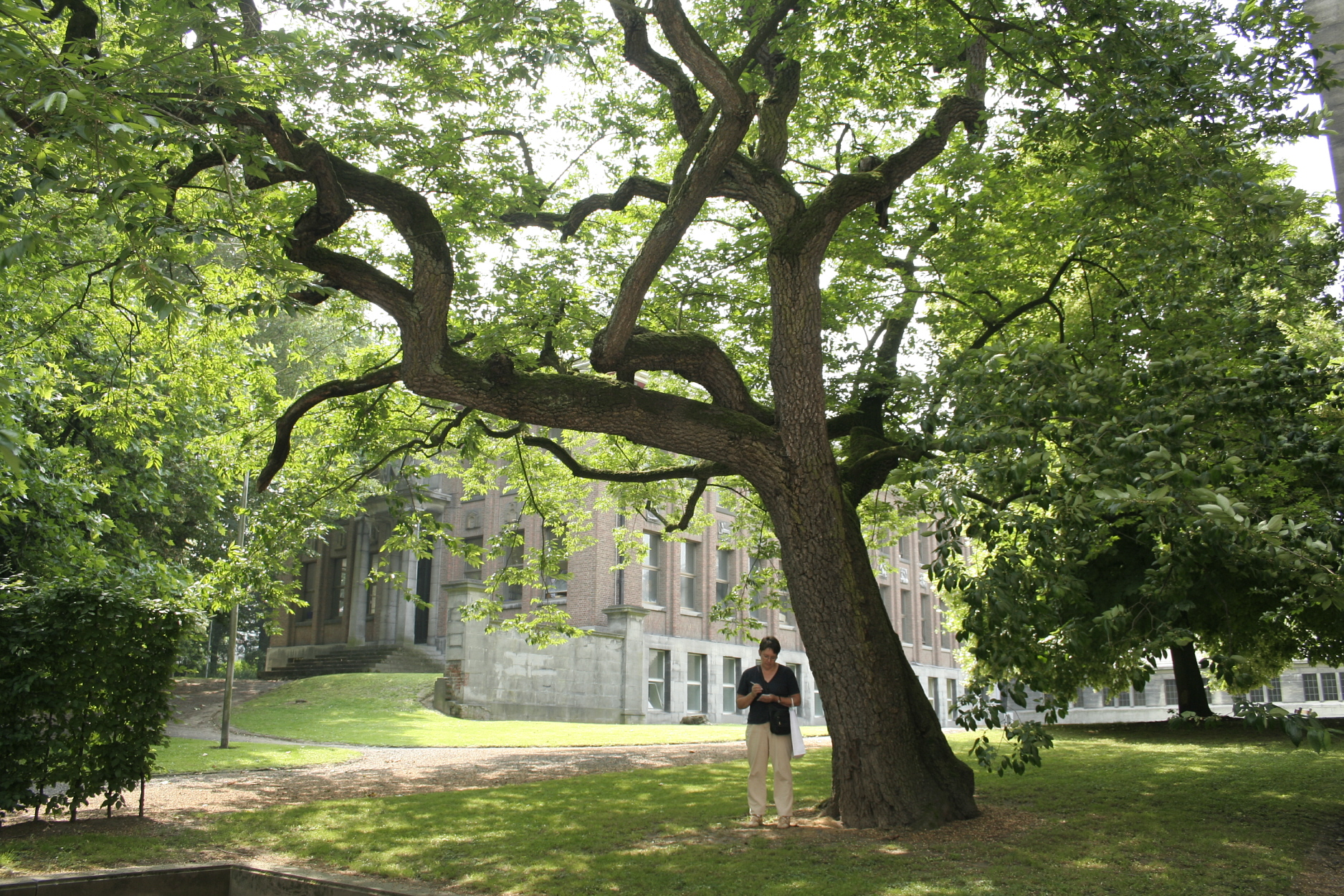 Date-plum Japaneese date-plum (Diospyros lotus).